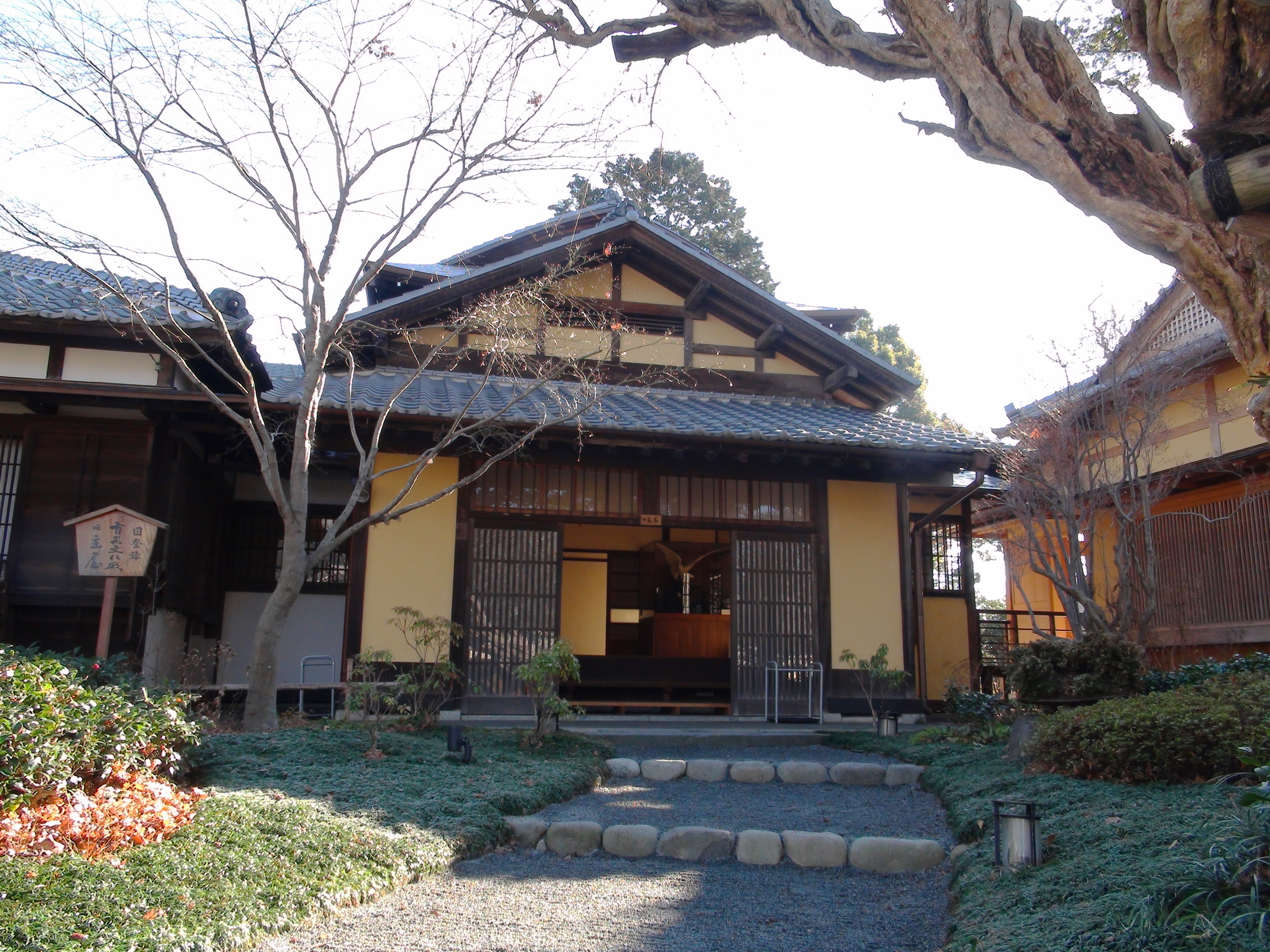 Nezu Memorial Museum Entrance